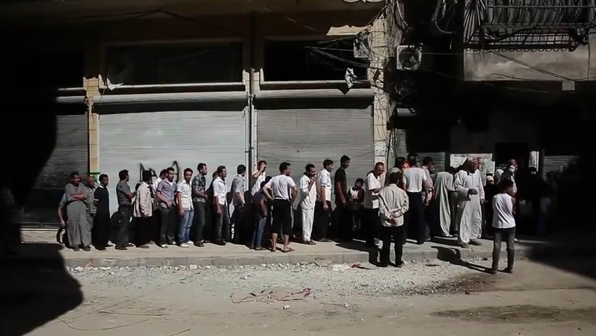 Aleppians waiting in a bread line during the Syrian civil war.